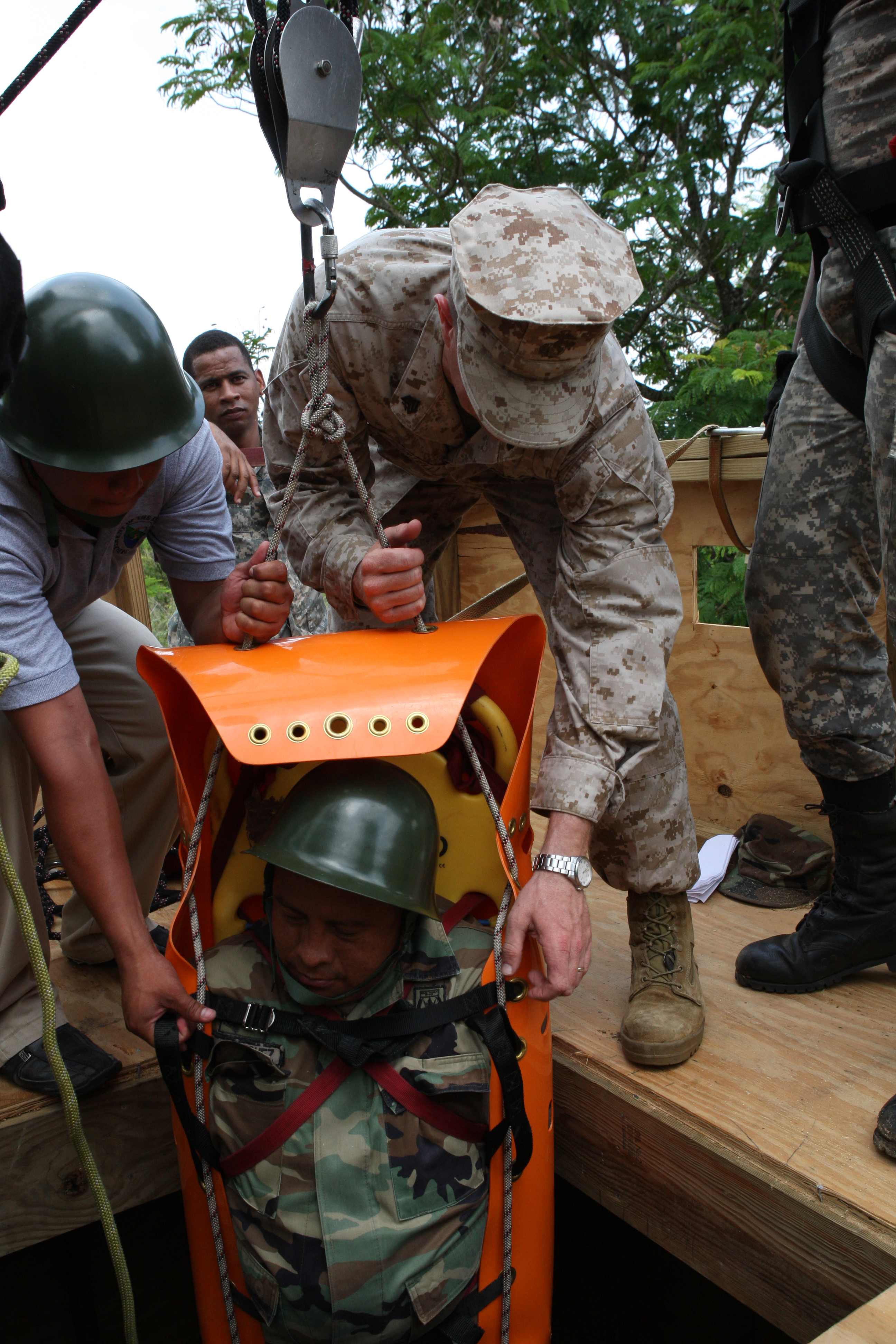 Sgt. Christian Cortelli, Instructor, Enviromental Services Detachment, Marine Forces Reserve (MARFORRES) conducts confined space rescue training with members of the Dominican Navy, the Belize Defense Force, and the Belize Police as part of Tradewinds 2010.Tradewinds is a Chairman of the Joint Chiefs directed, U.S. Southern Command sponsored annual exercise that is conducted with the Caribbean Basin Partner Nations, designed to improve cooperation with the partner nations in responding to regional security threats.